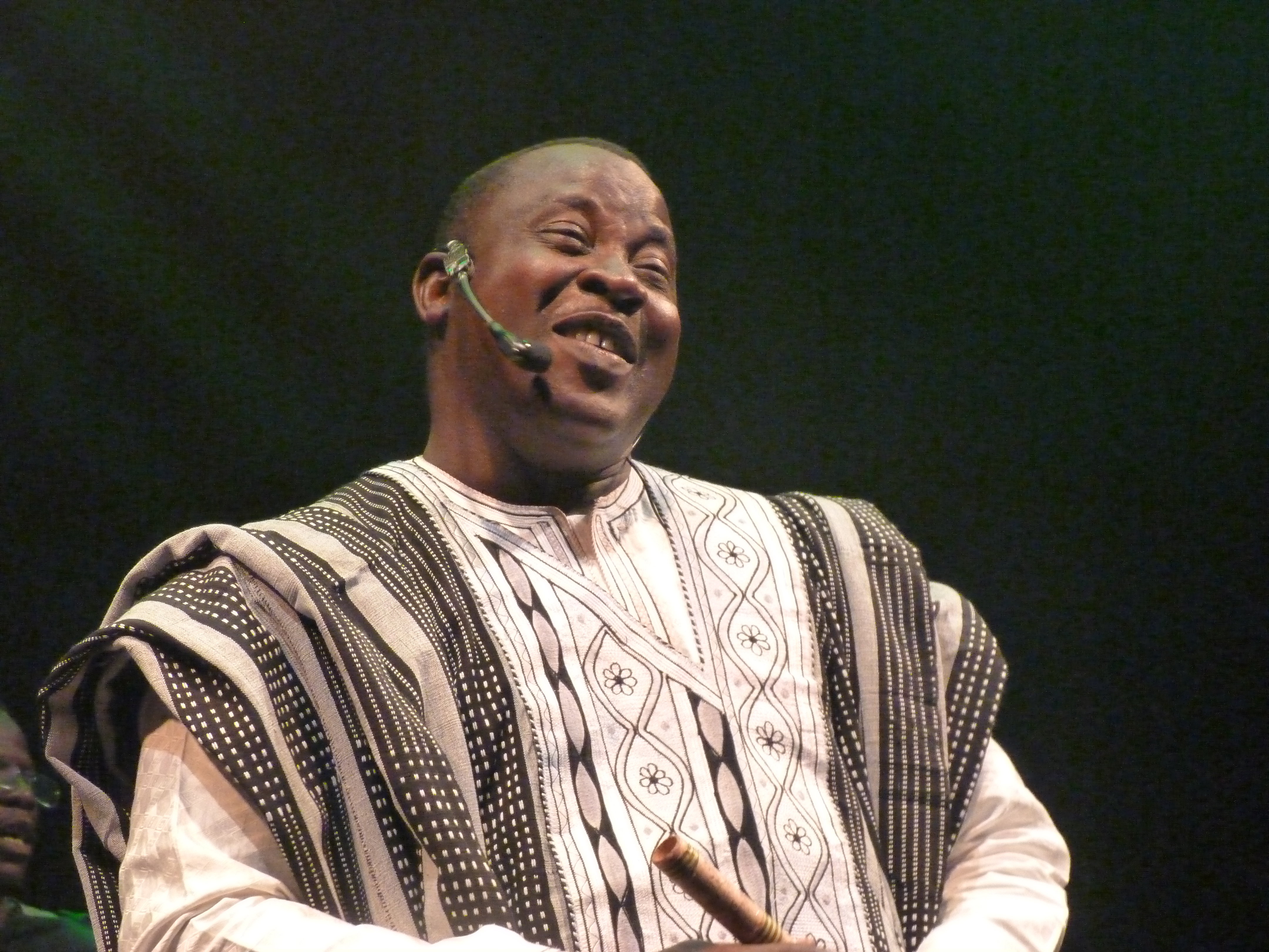 Live on the 24th of October, 2015. WOMEX 15, Budapest, Hungary. Mamar Kassey.